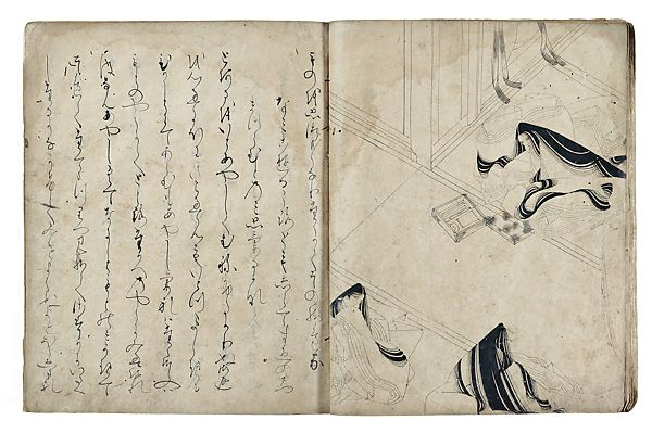 An illustrated book of The Tale of Genji. It contains two "ink-line" (hakubyō) paintings. This book dates to the thirteenth century, but the images retain the style of Heian-period narrative painting from when the story takes place. Here, Ukifune reads a letter from Kaoru reproaching her for being unfaithful to him with Prince Niou. Finding herself entangled in a love triangle, Ukifune nervously faces her inkstone and brush as she considers how to reply. Artwork was lent to an exhibition at the Metropolitan Museum of Art by the Museum of Japanese Art (Yamato Bunkakan).